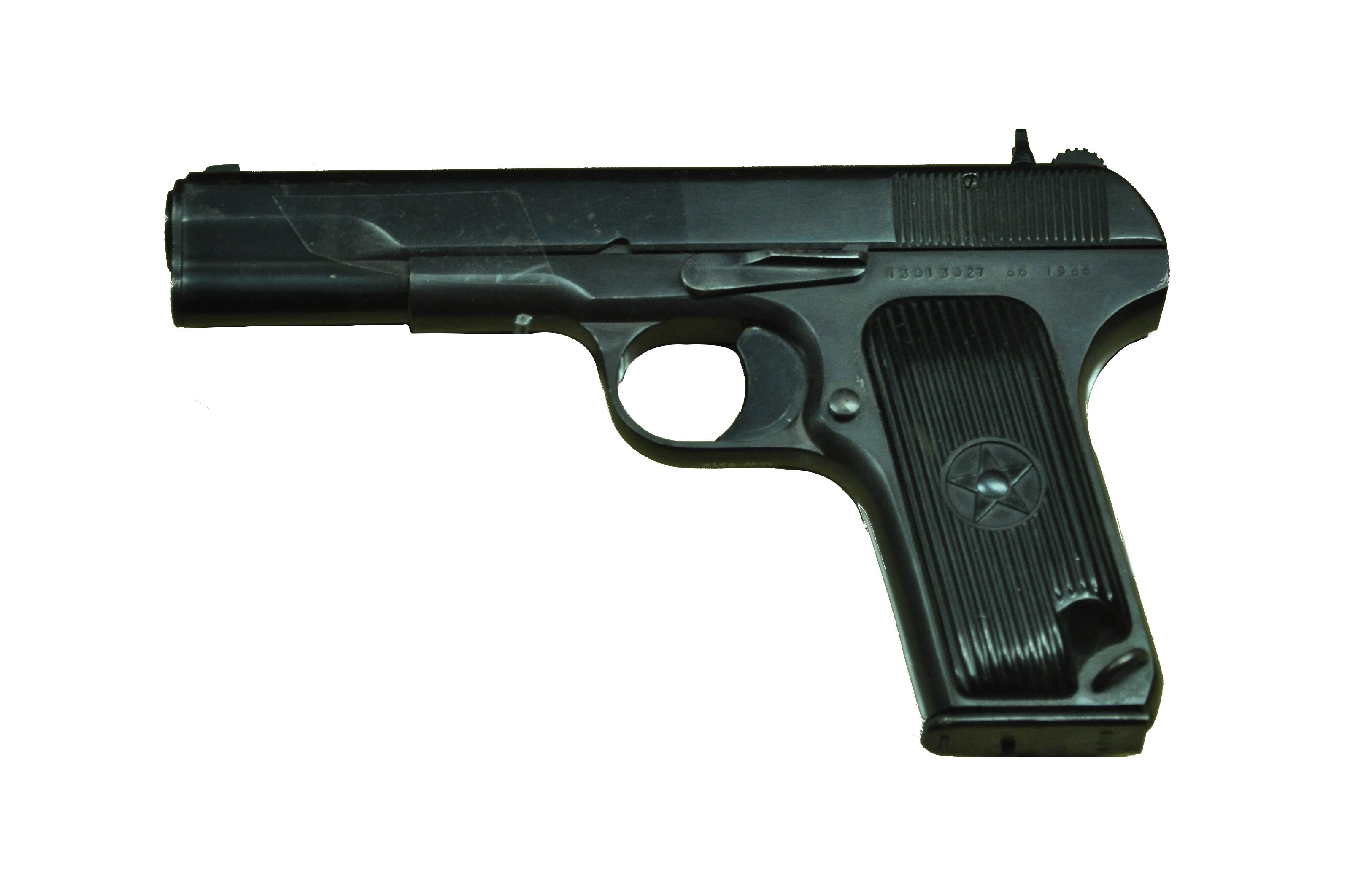 Soviet TT M1933 automatic pistol, Fort Lewis Military Museum, Fort Lewis, Washington, USA. Part of a display of the weapons of the Korean War.